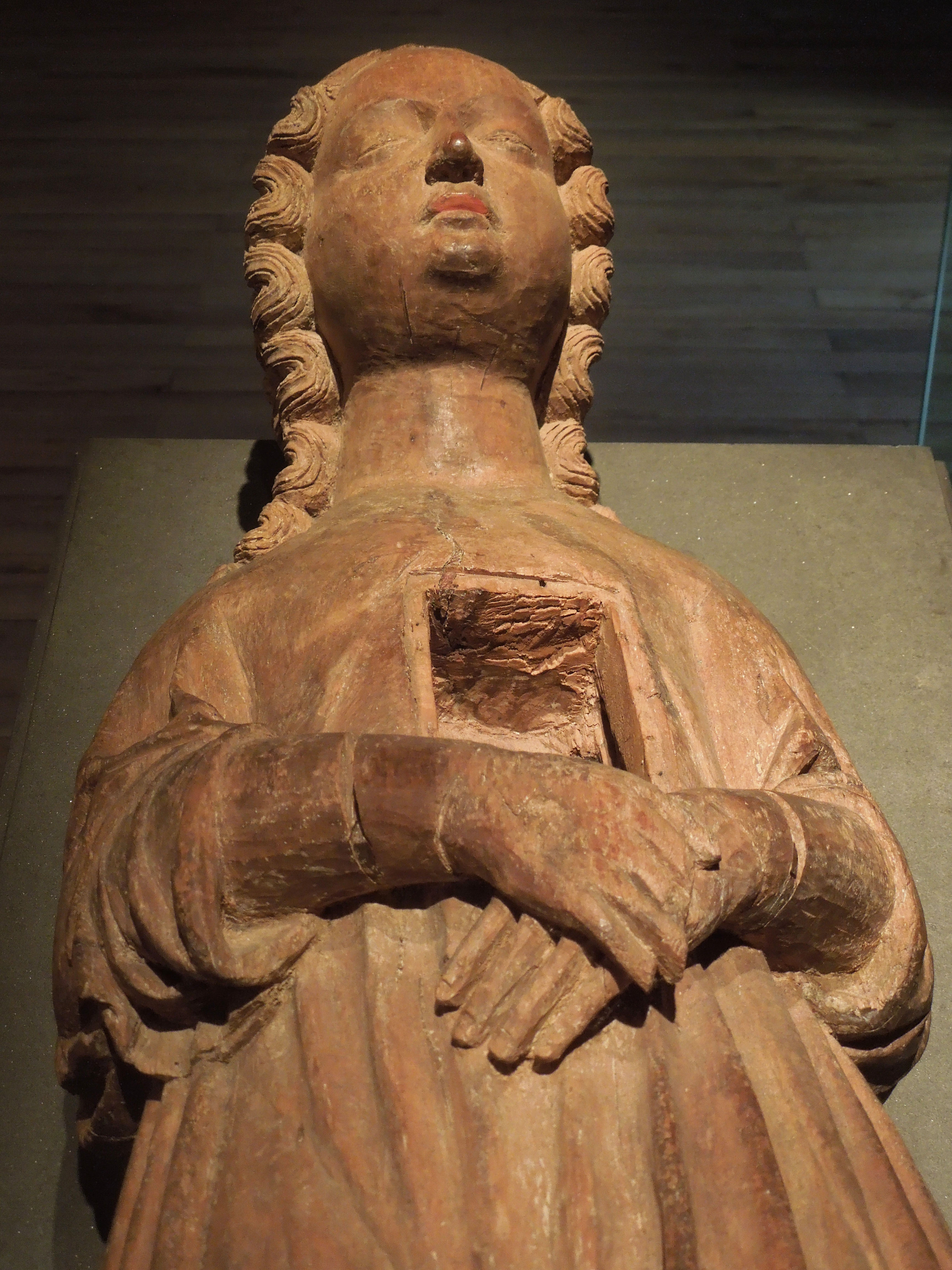 St Benigna, Prague, shortly before 1327